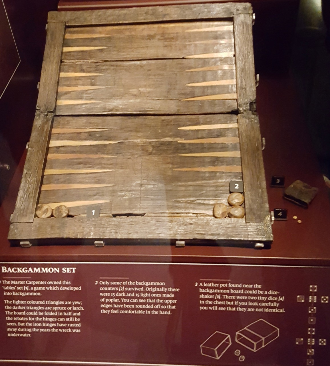 Tables game found in the shipwreck of the Mary Rose displayed in the Mary Rose Museum in Portsmouth.